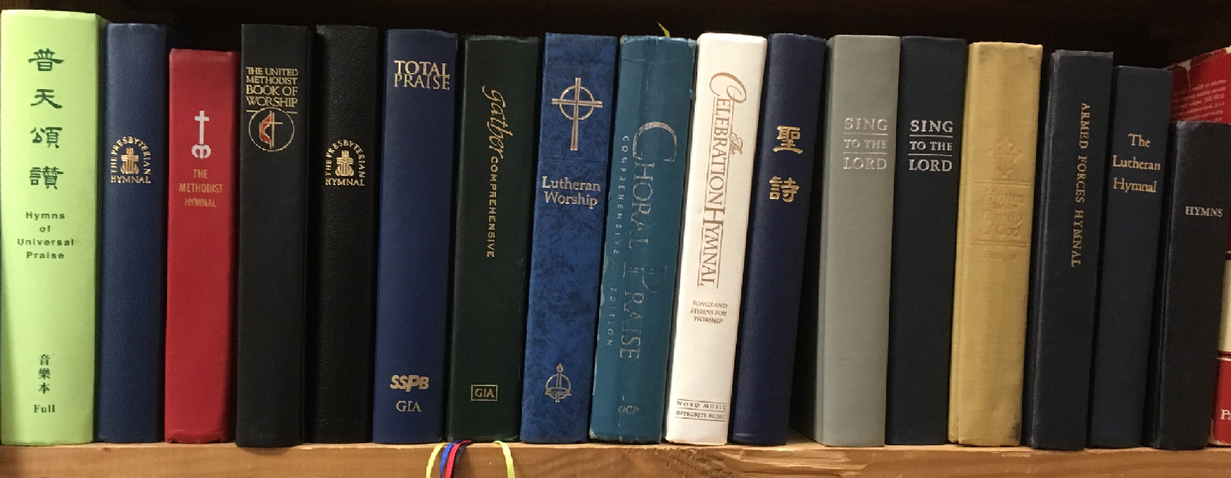 A row of hymnals on a shelf, mostly in English